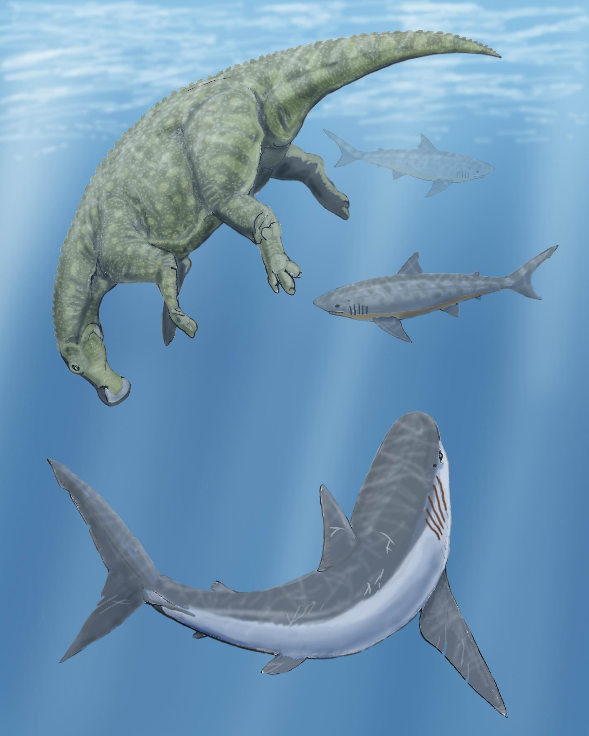 Dead hadrosaur Claosaurus floating in Western Interior Sea of Cretaceous Kansas. Cretoxyrhina and two Squalicorax sharks swim around.